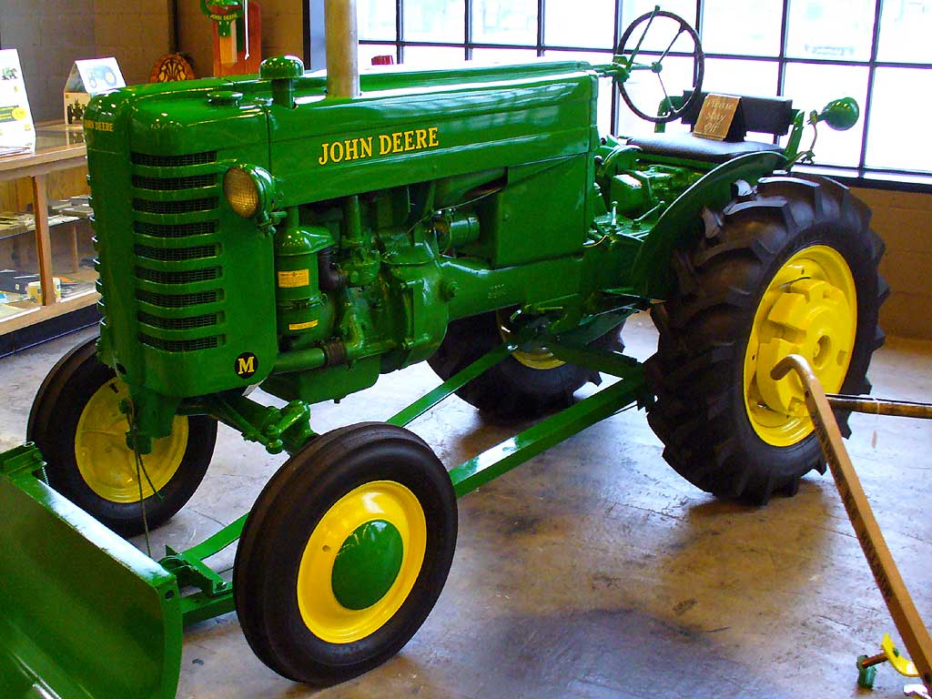 John Deere M tractor – Submitted by and originally used on Our mission is to preserve the past so the future can enjoy.